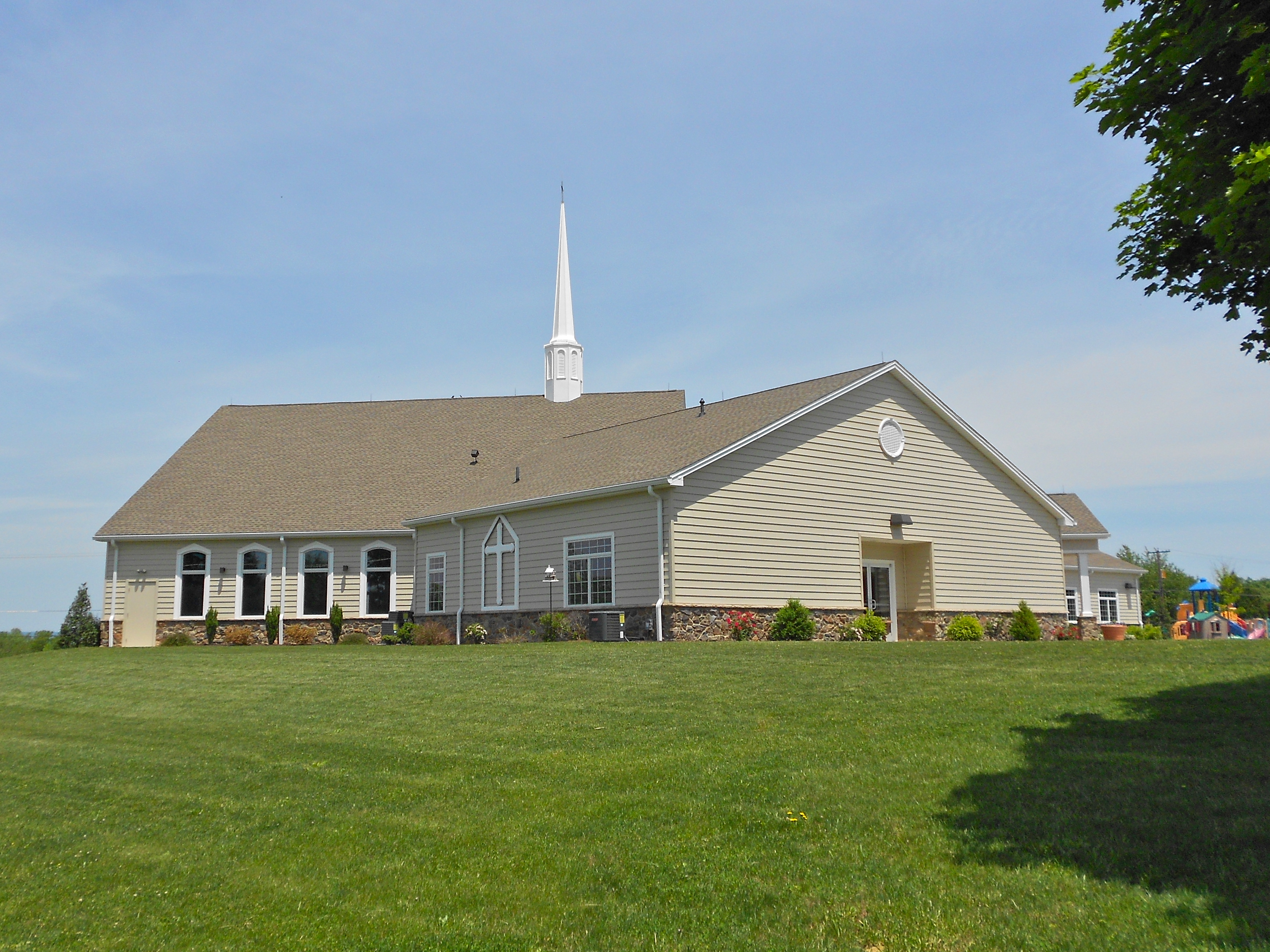 Christ Lutheran Church, in Fileys, Monaghan Township, York County, Pennsylvania